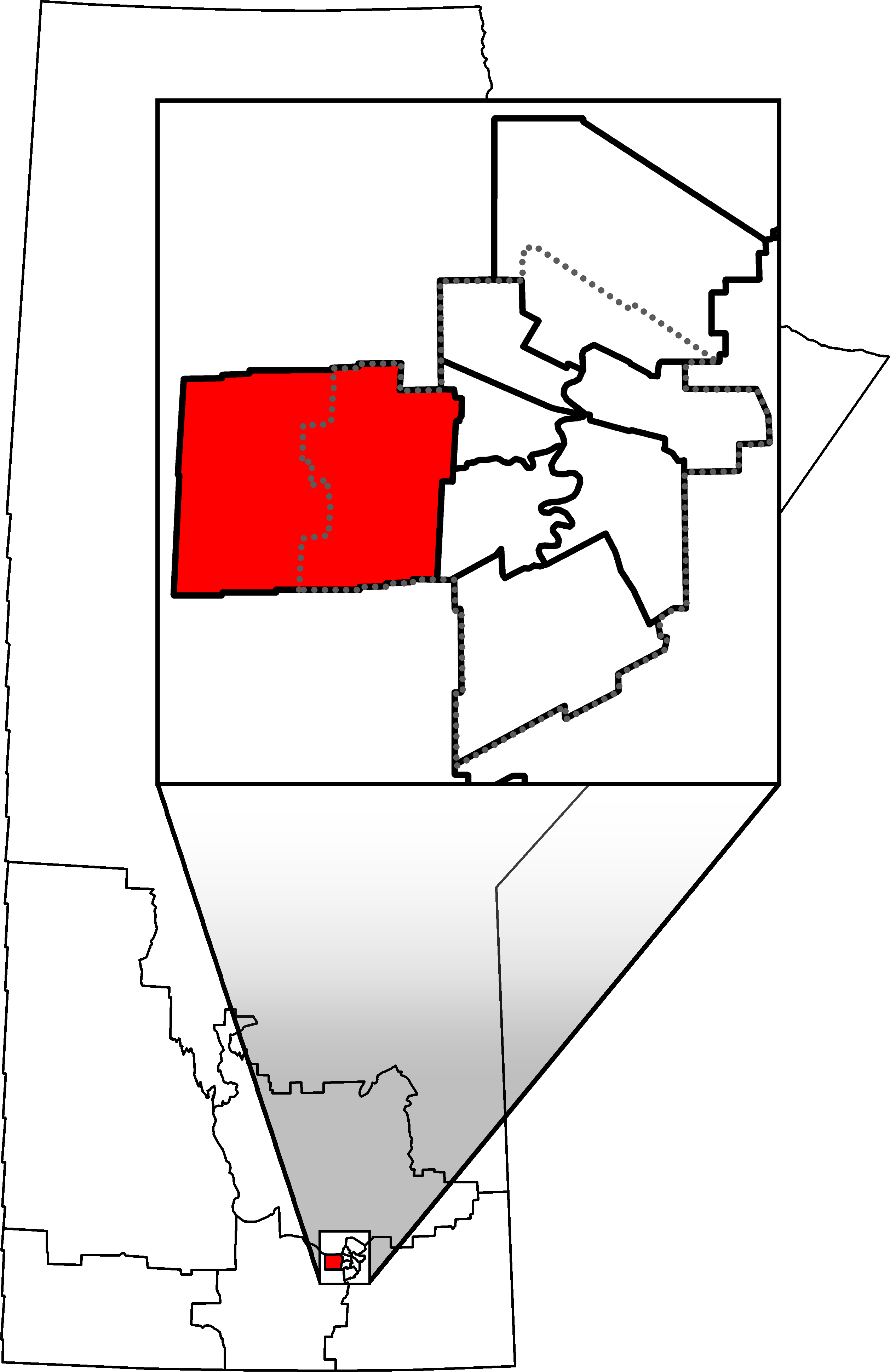 Federal Electoral District in Manitoba, Canada as of the 2013 Representation Order.